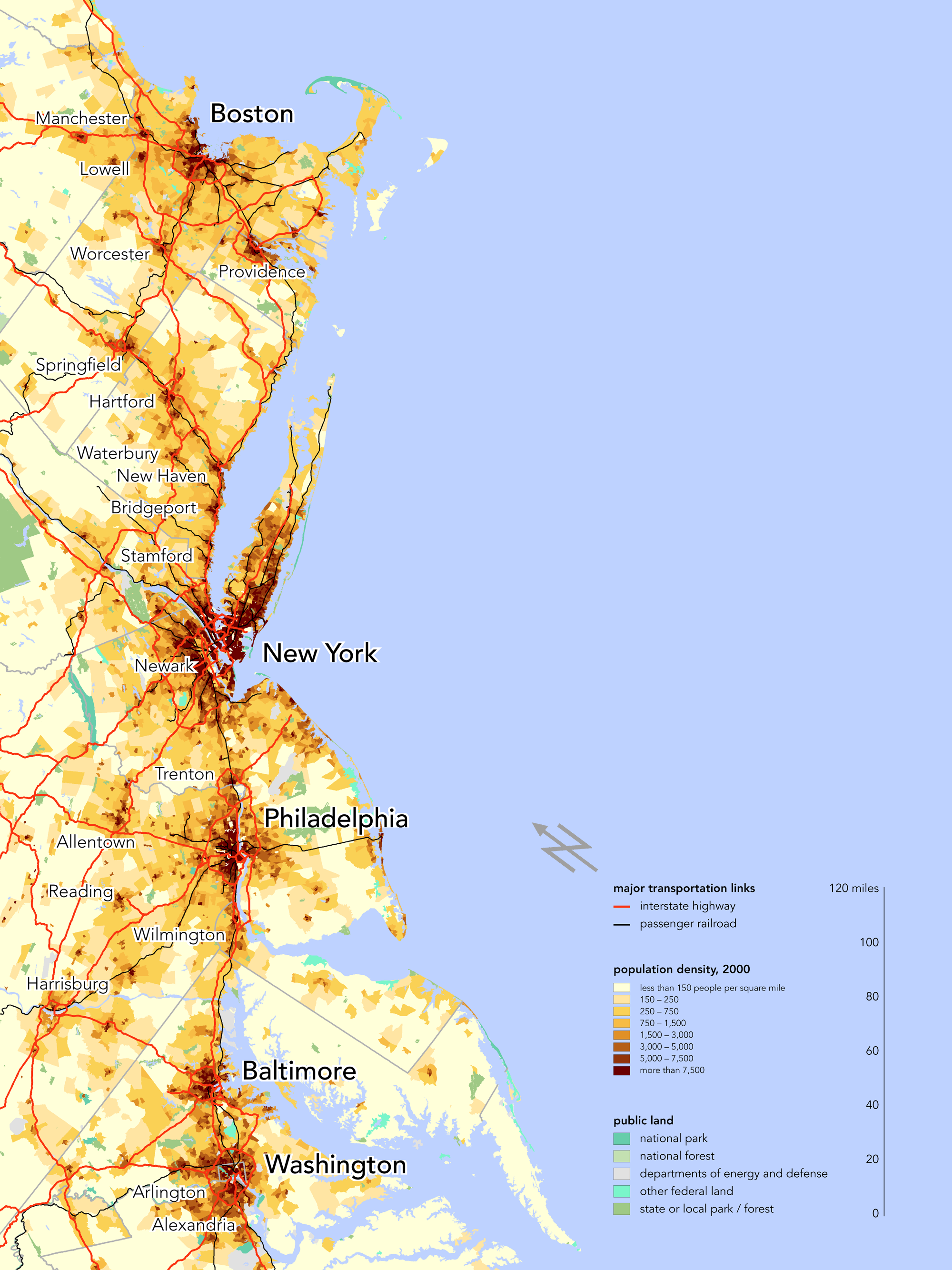 Population-density map of the Northeast megalopolis, also knows as Boston–Washington megalopolis or BosWash.